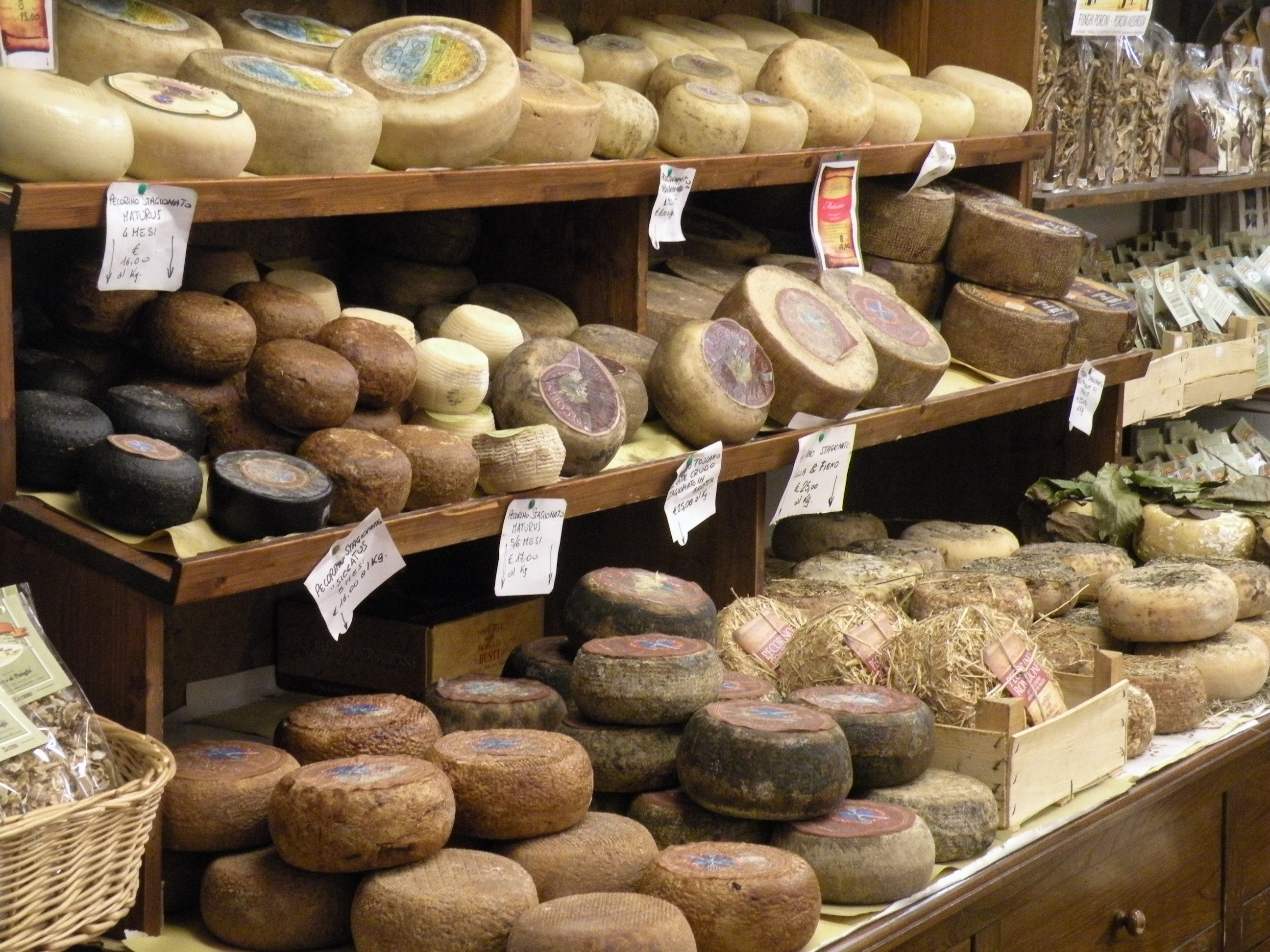 Pecorino di Pienza is sheep's milk cheese produced in Pienza – Italy.